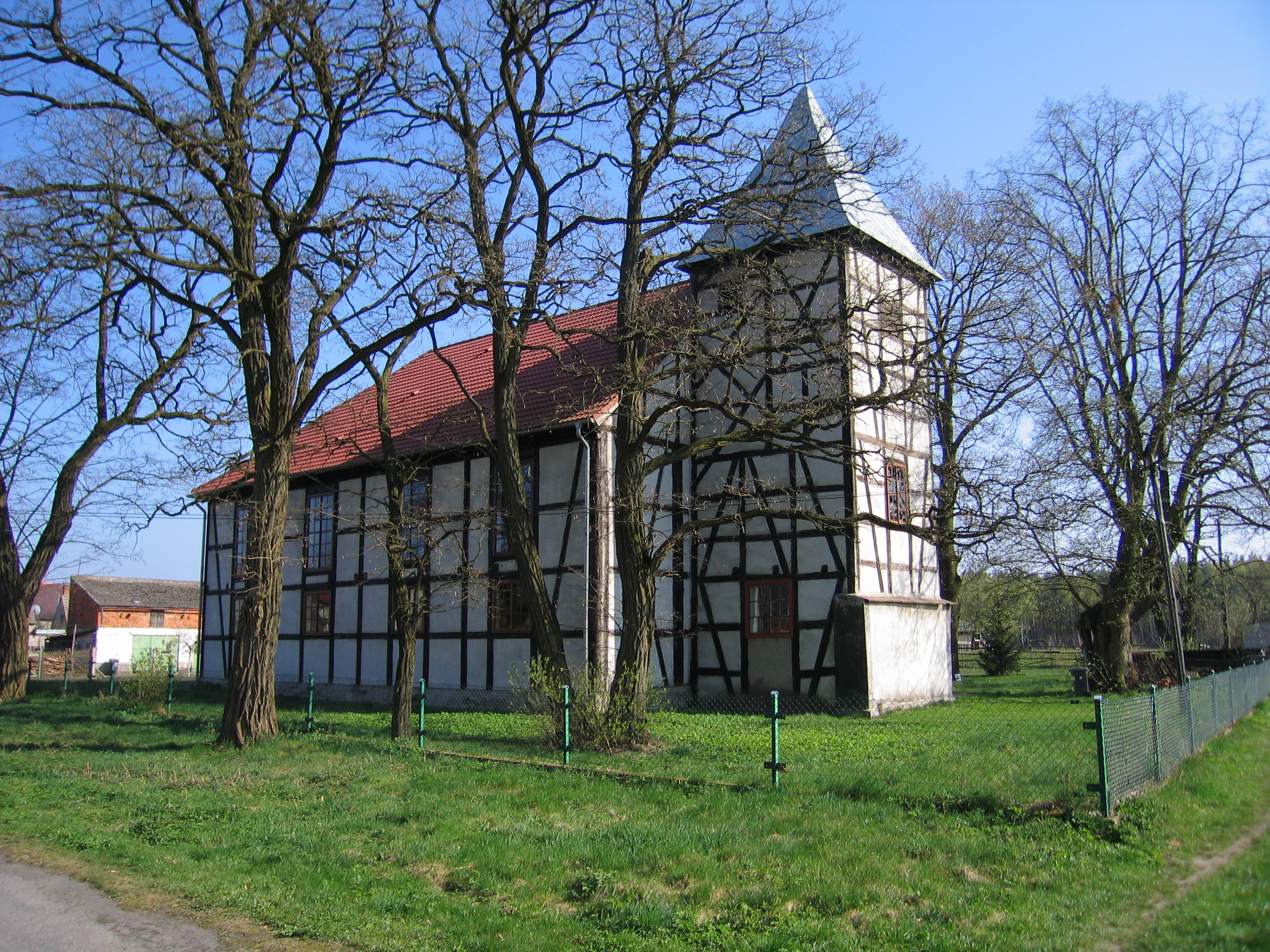 the church in Lipno near Zielona Góra